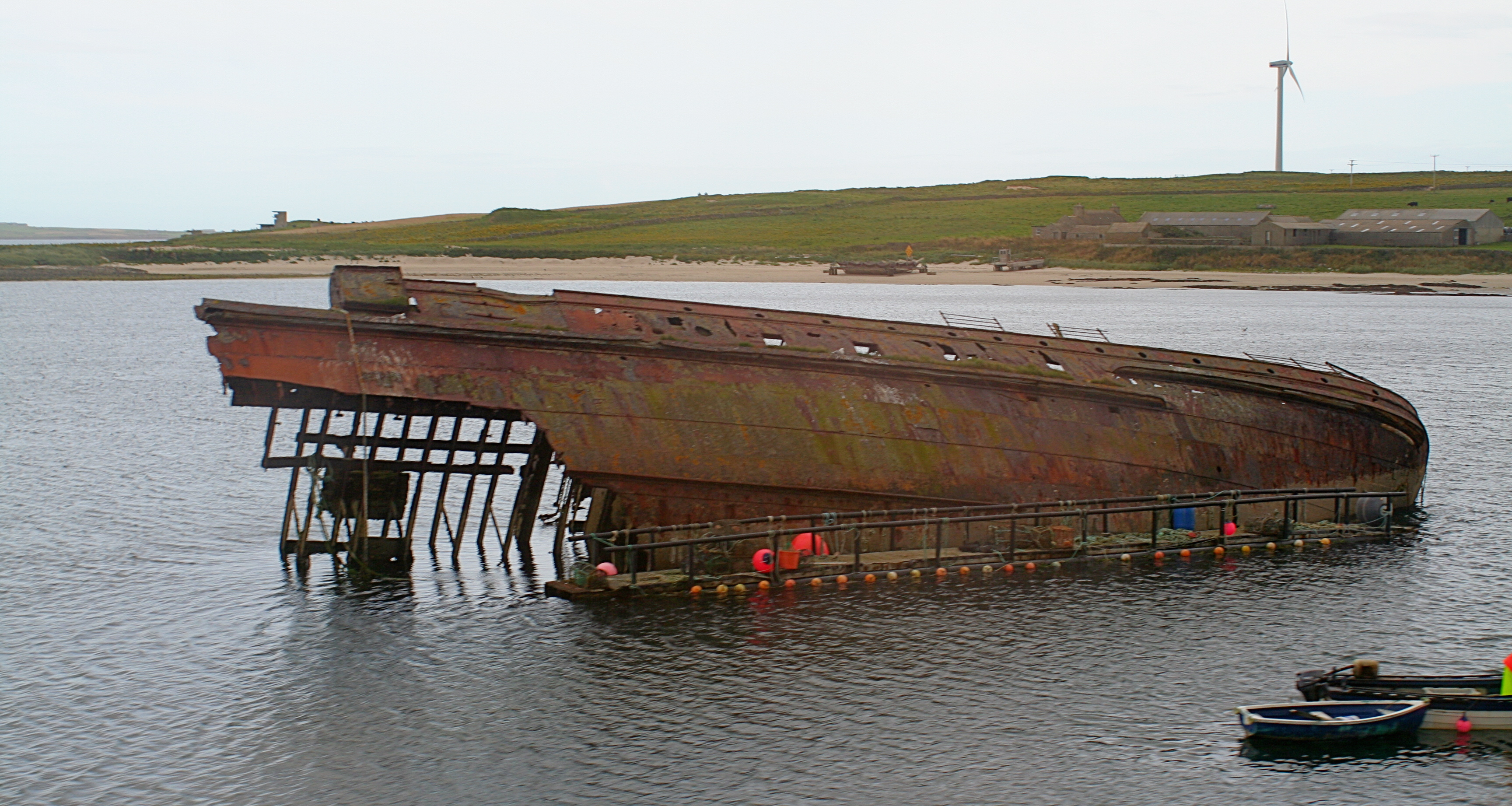 To protect the British Fleet during the early part of WW2 ships were deliberately sunk in the eastern approaches to Scapa Flow to prevent German U-Boats from getting amongst the ships at anchor